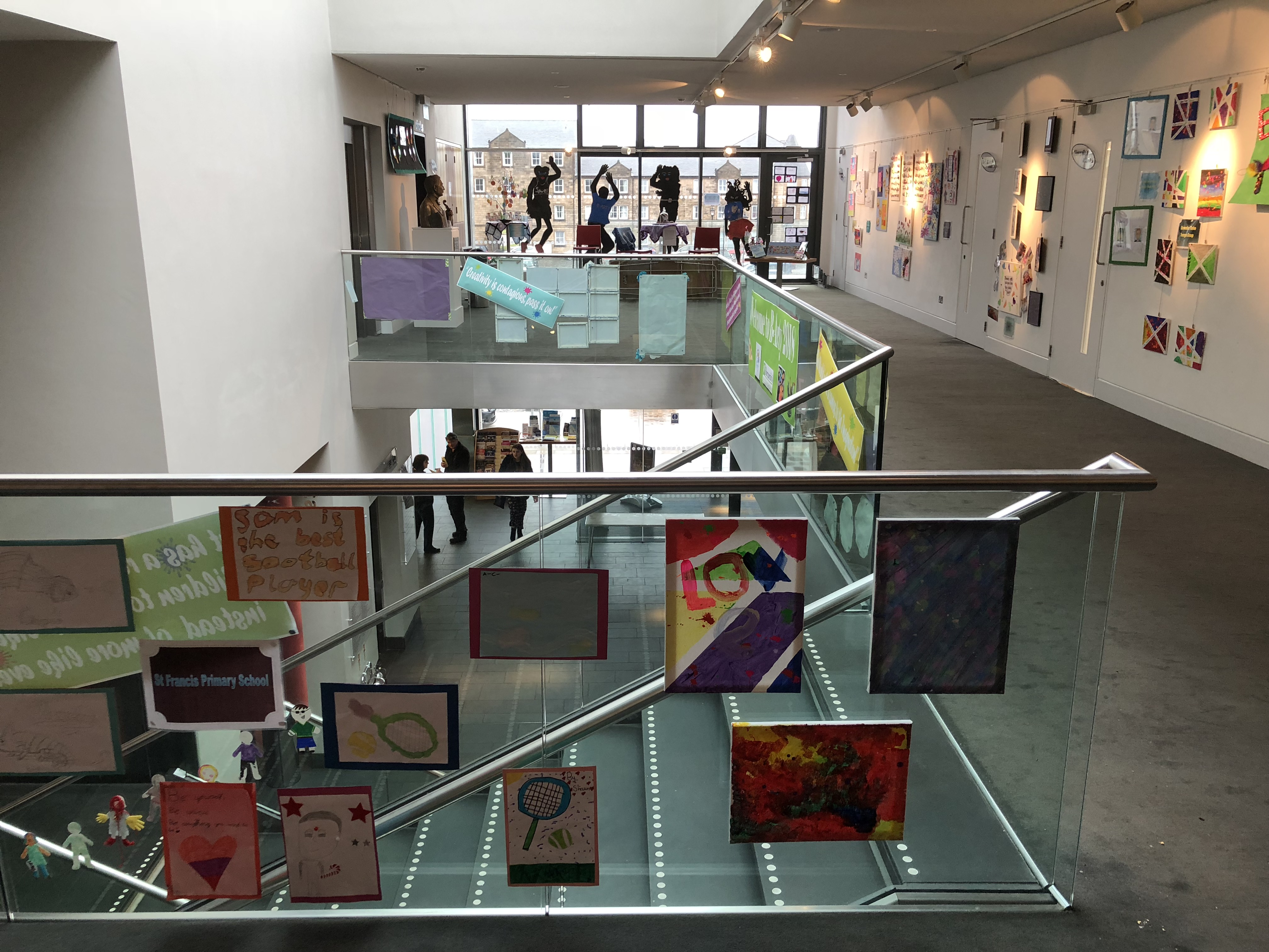 Foyer of the Beacon Arts Centre, at Greenock in Scotland, seen from the first floor looking towards the entrance and booking office: main auditorium on the left, gallery suite to the right. Barnardo's children's art exhibition on display.